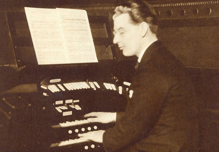 John Malm (1901-1965), Swedish pianist, organ player, composer and bandleader. Hear seen at the Wurlitzer cinema organ at Skandia (biograf).